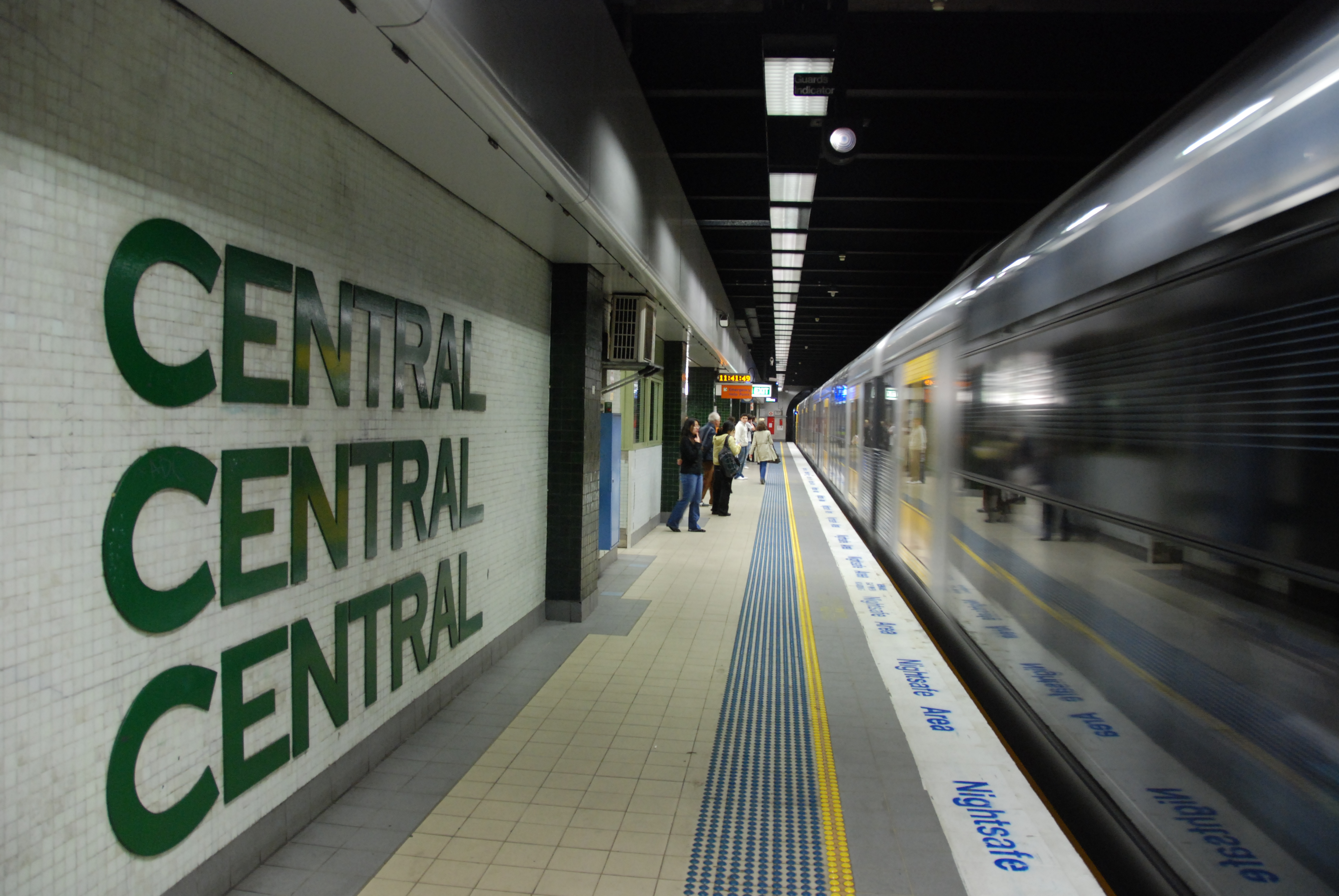 Central Station Platform 24